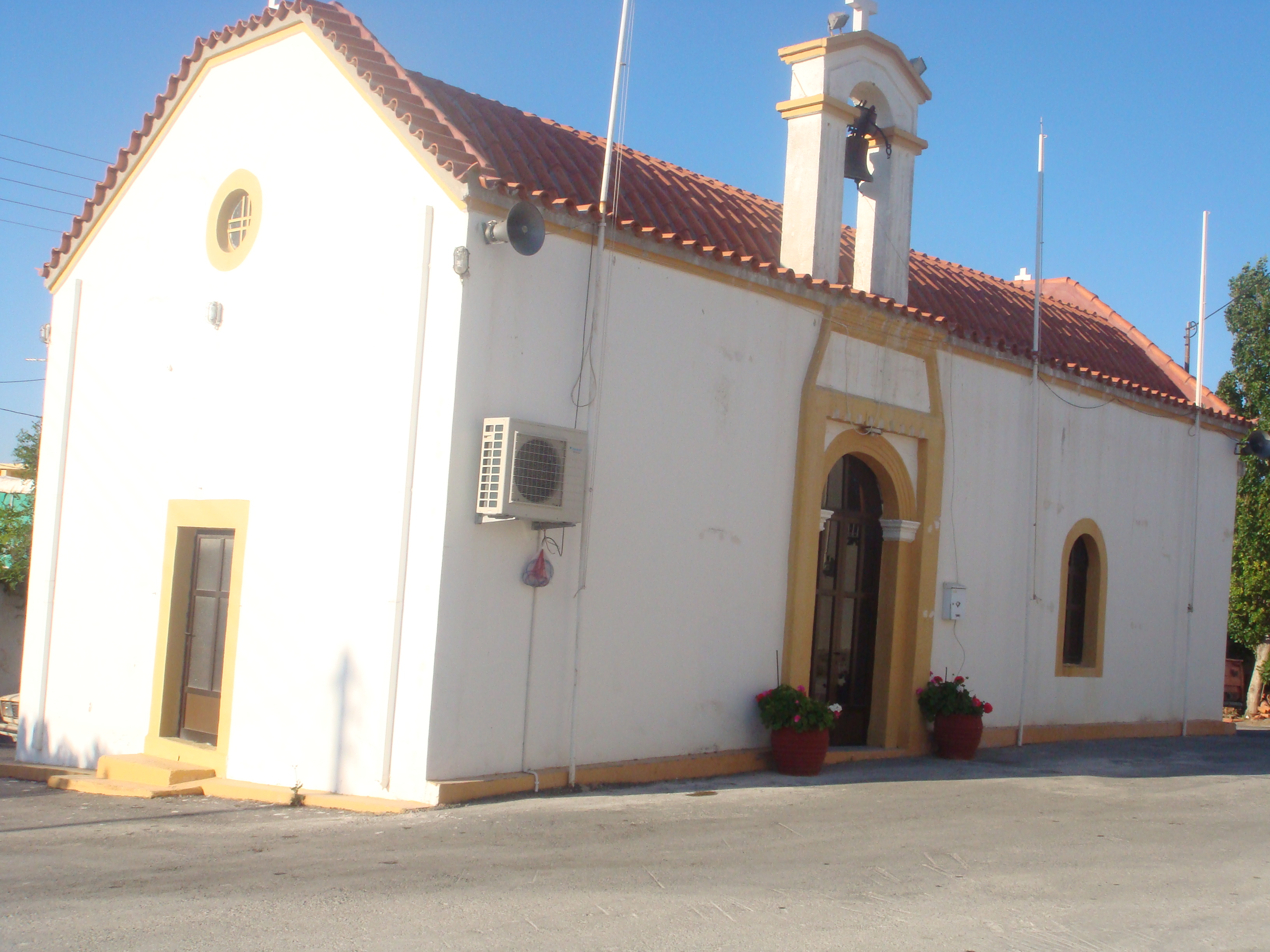 Church of Agios Nikolaos in Zinta, Iraklion Prefecture.